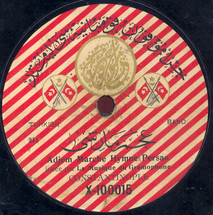 Label of salam-e shah or the first national anthem of Persia (Iran) that was performed and recorded in Ottoman empire. This label was published by Mr. Amir Mansour in his website (